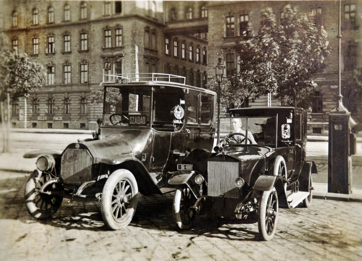 Automobiles in Budapest around 1913.